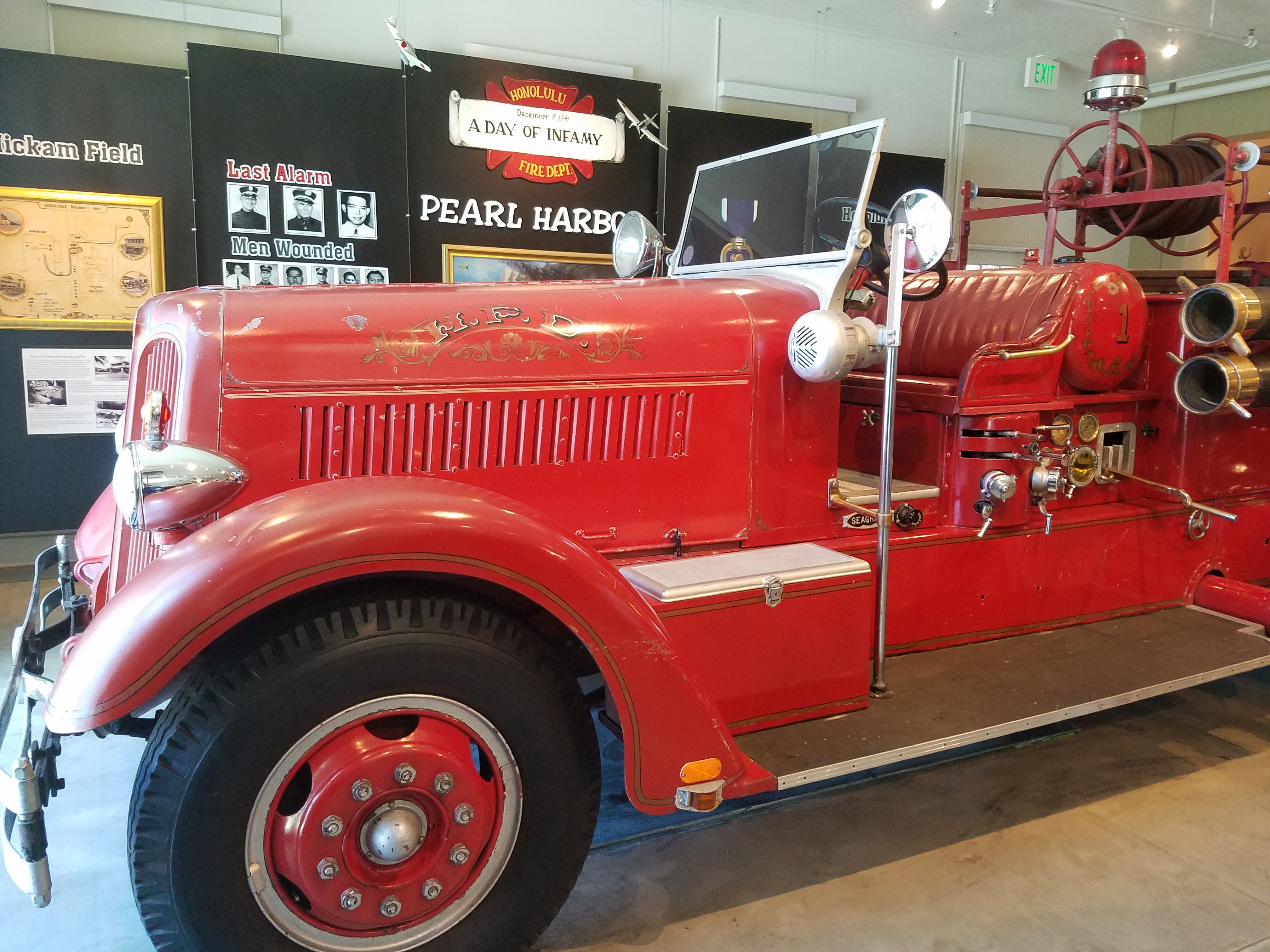 HFD Museum